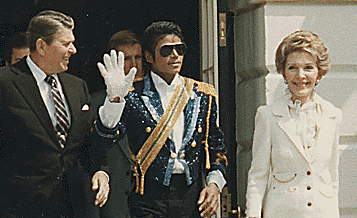 Title: Photograph of The Reagans and Michael Jackson at the White House Ceremony to launch the Campaign against Drunk Driving, 05/14/1984 Creator: President (1981-1989 : Reagan). White House Photographic Office. (1981 - 1989) (Most Recent) Type of Archival Materials: Photographs and other Graphic Materials Level of Description: Item from Collection RR-WHPO: White House Photographic Collection, 01/20/1981 - 01/20/1989 Location: Ronald Reagan Library, Simi Valley, CA {from ARC search [1]). ARC Identifier: 198548